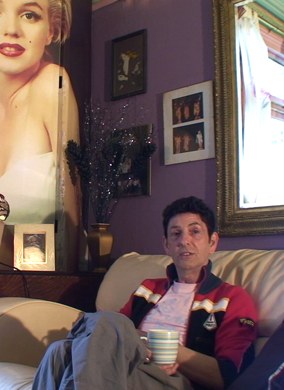 English composer, singer and arranger Frank Collins, member of and composer for the British soul band Kokomo.A still taken from an Acabashi filmed and authored HD biographical interview video, West London, UK. Video still edited in Photoshop CS2.